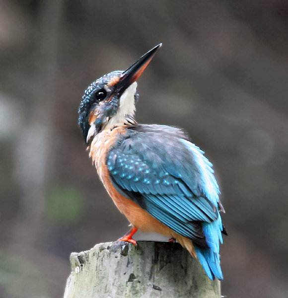 Common Kingfisher Alcedo atthis in Kolkata, West Bengal, India.